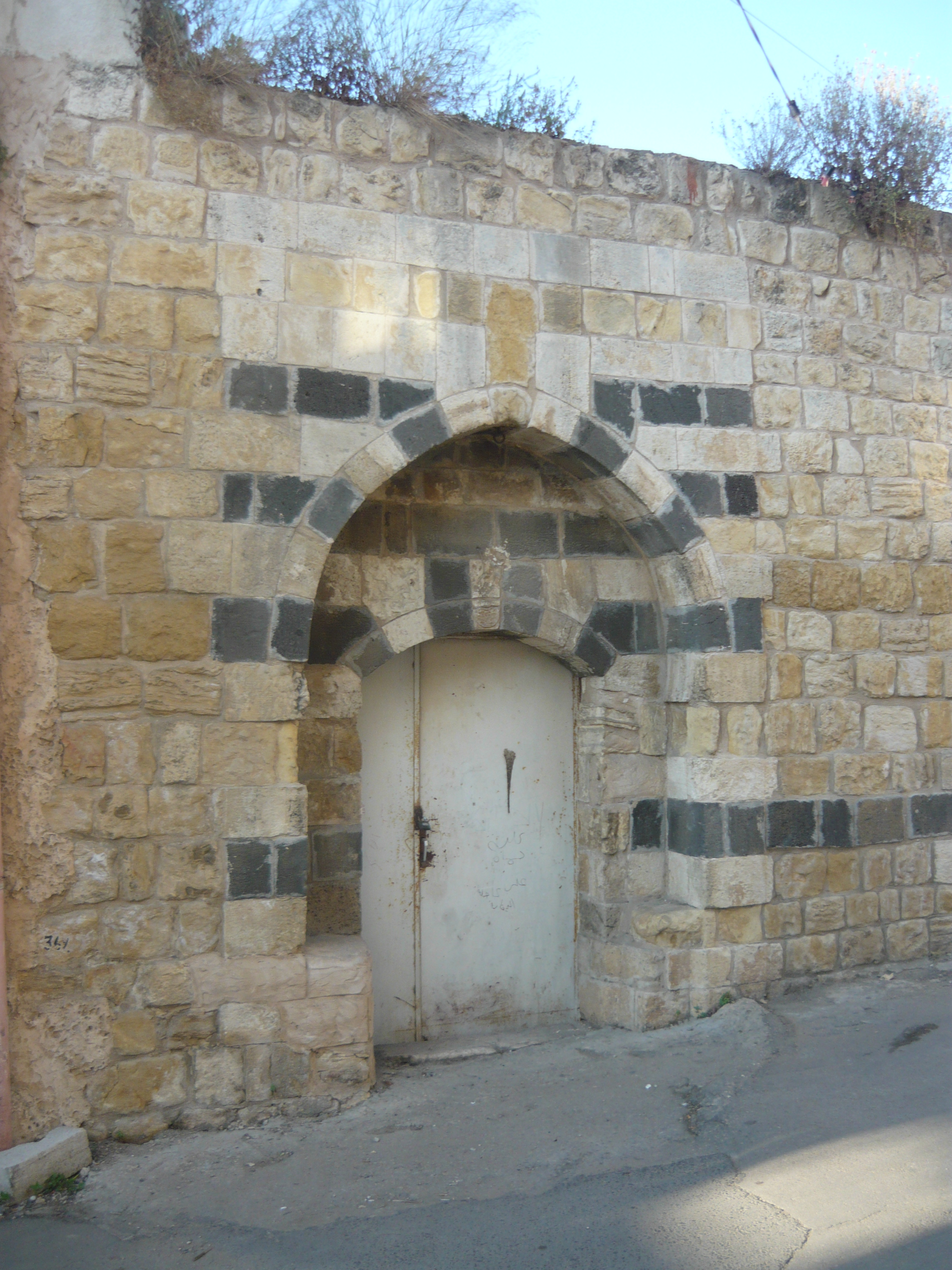 Omar El Zidani's house in Arrabe דלת מעוטרת בבית עומאר אל זידאני בעראבה